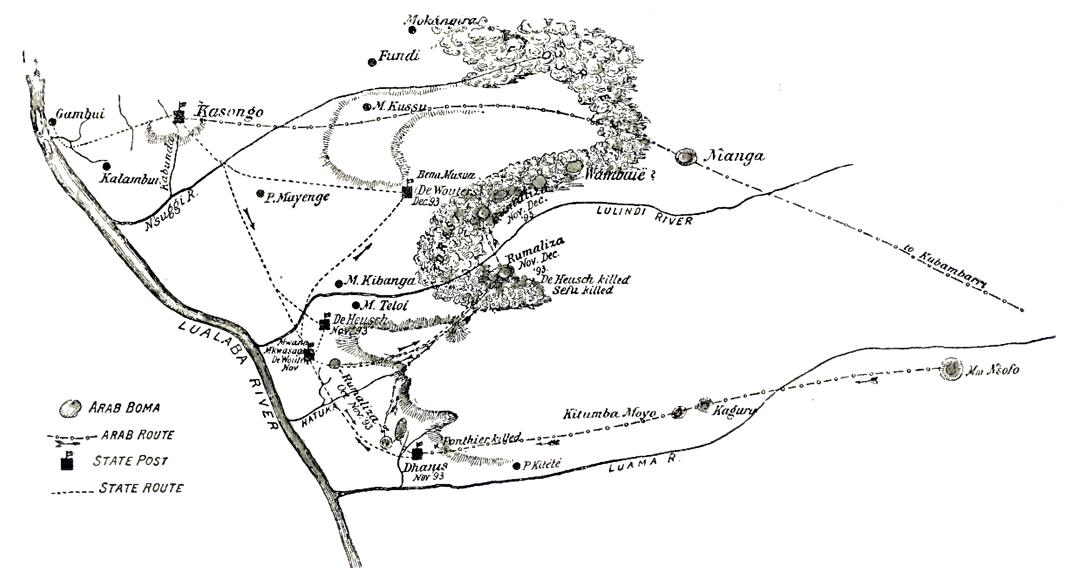 In October 1893, Rumaliza (Muhammad bin Khalfan al Birwani) invaded the newly conquered Manyiema region and confronted the troops of the Congo Free State under Francis Dhanis.